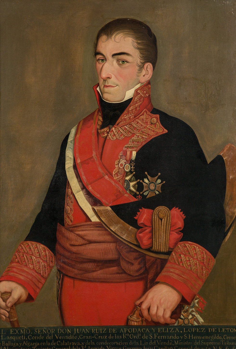 Viceroy Juan José Ruiz de Apodaca y Eliza